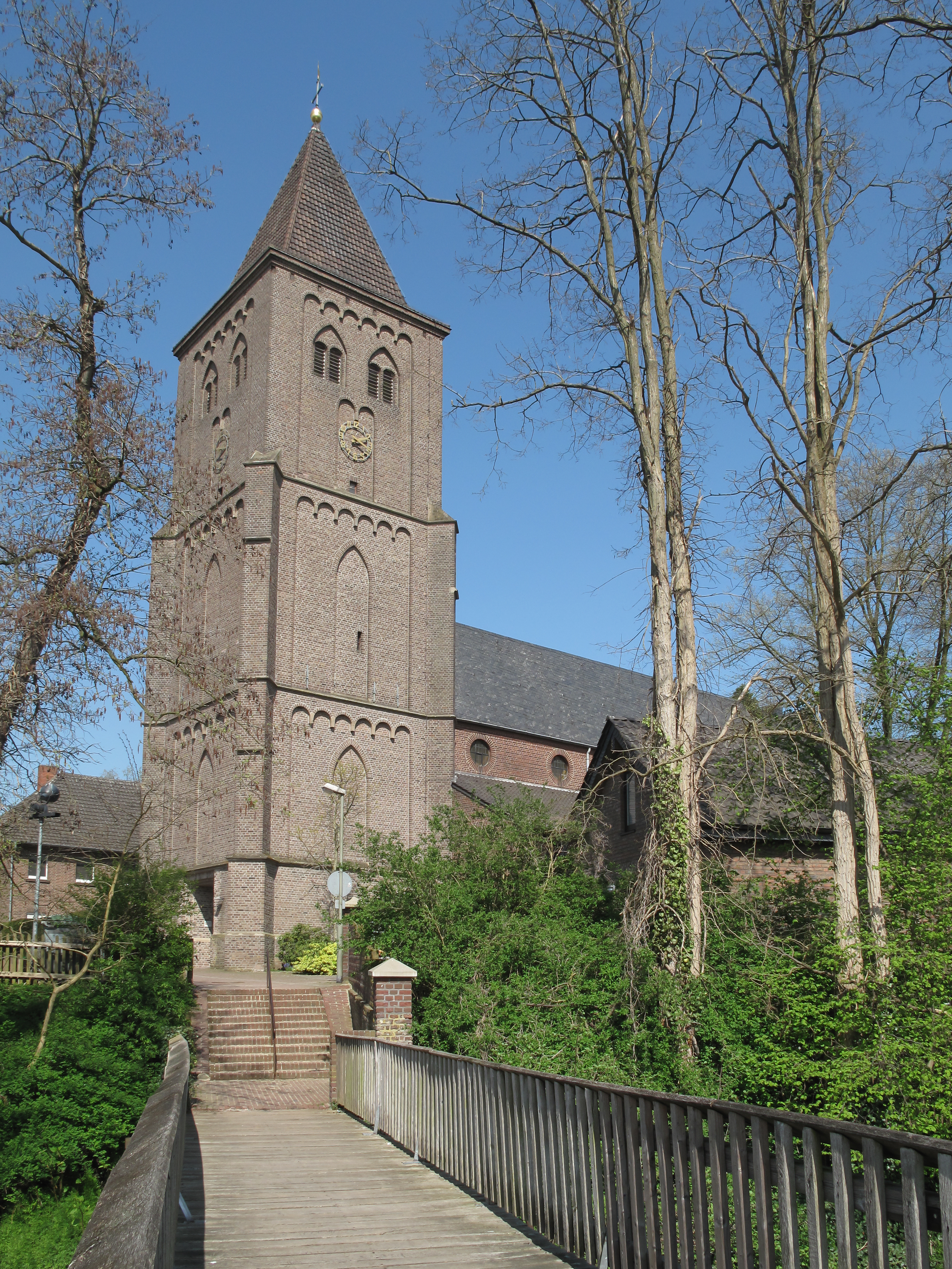 Rees-Mehr, St. Vincentius church